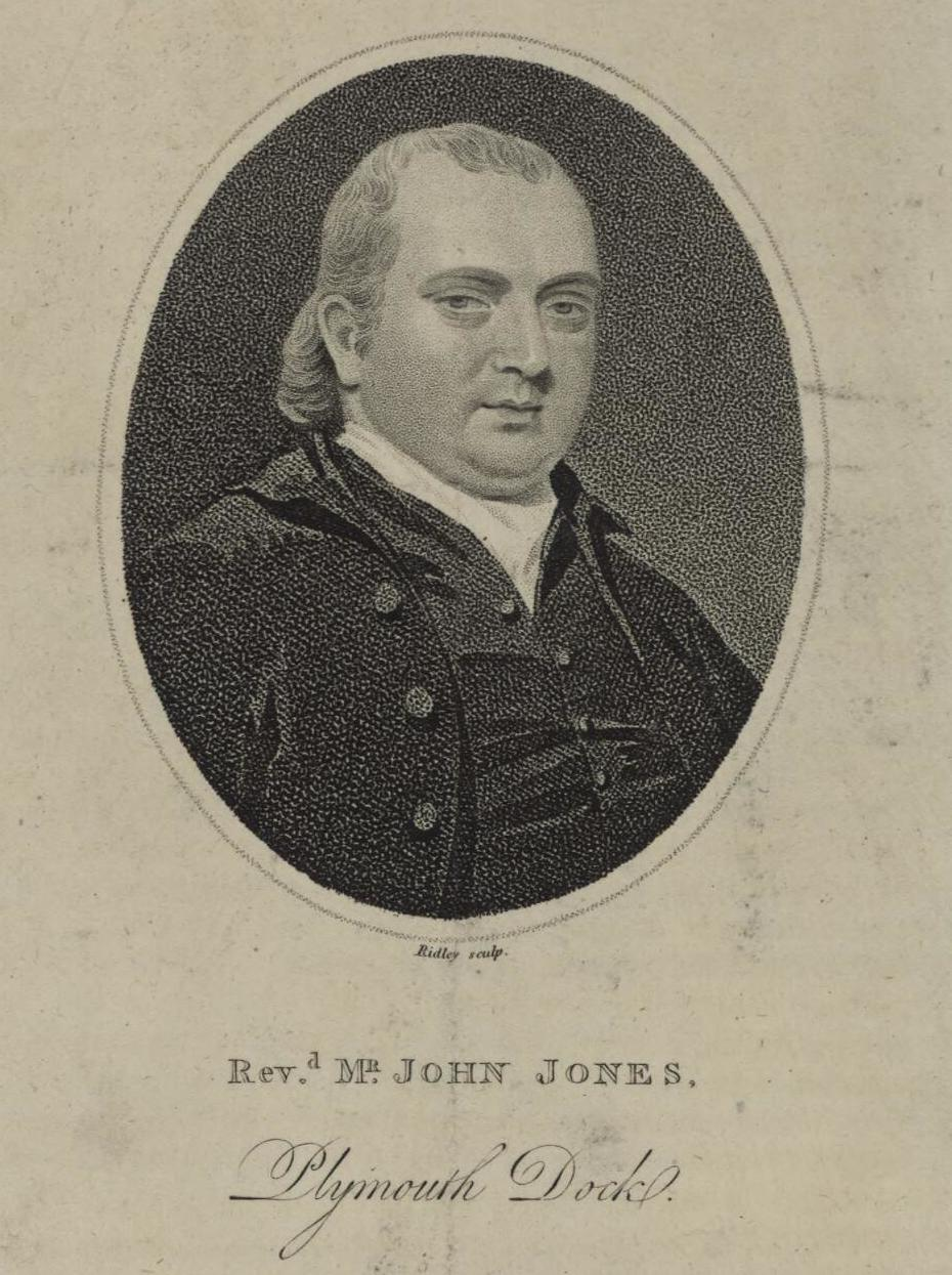 A portrait from the Welsh Portrait Collection at the National Library of Wales. Depicted person: John Jones – Welsh Unitarian minister and lexicographer